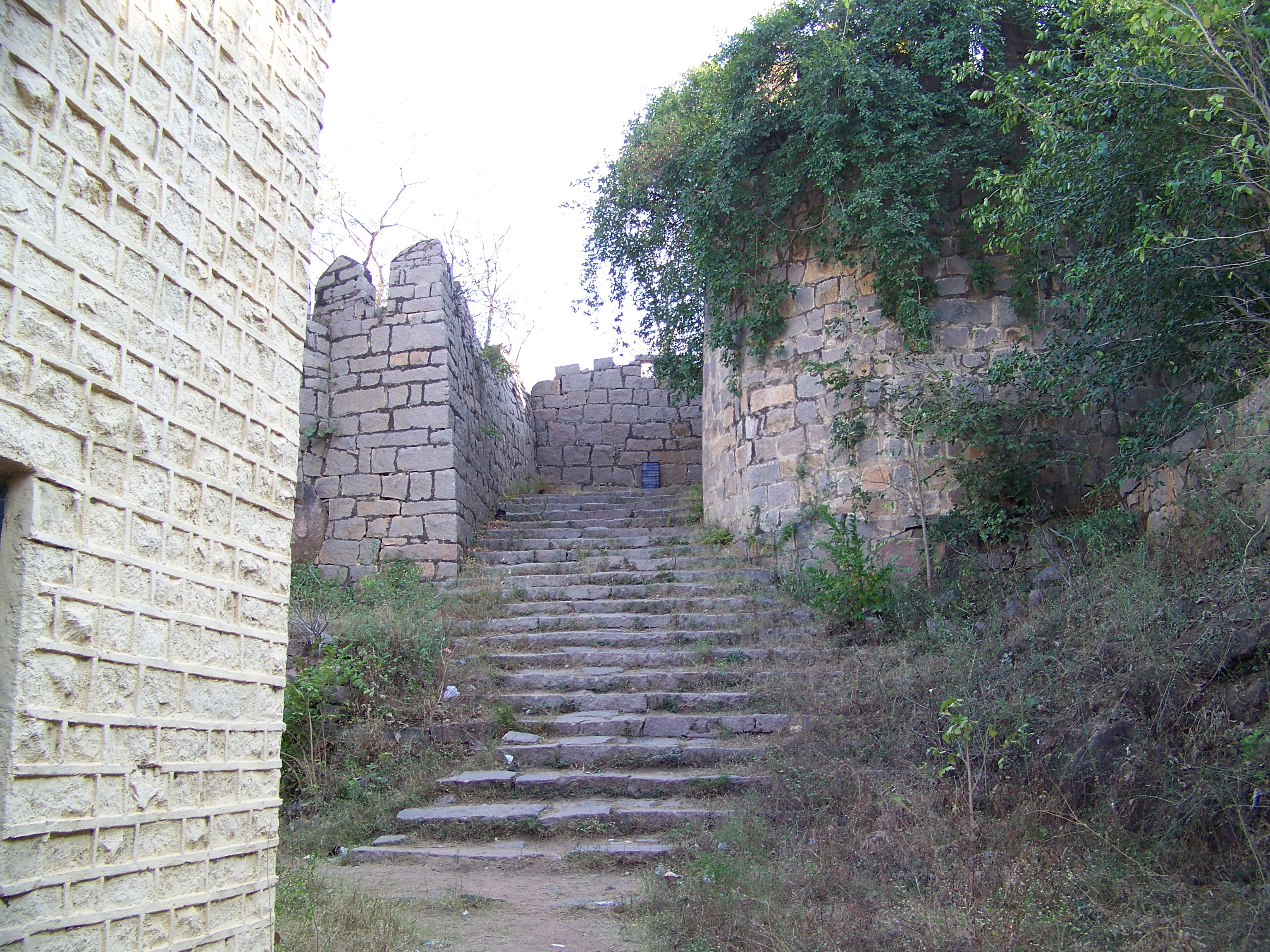 Hill fort (also: Medak Fort)